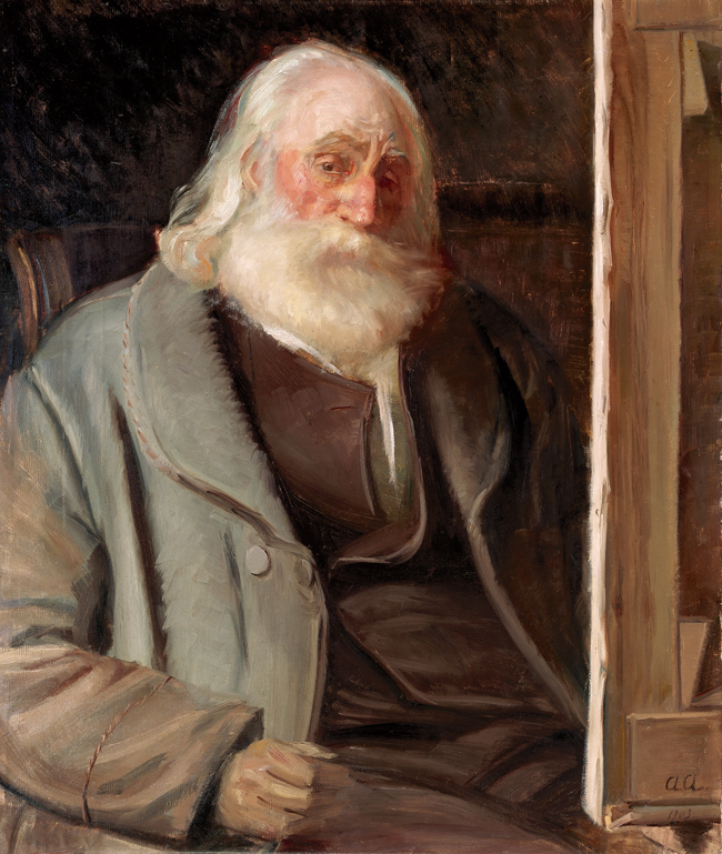 Portrait of Danish painter Vilhelm Kyhn in his old age, painted by Anna Ancher who trained with him in her early career